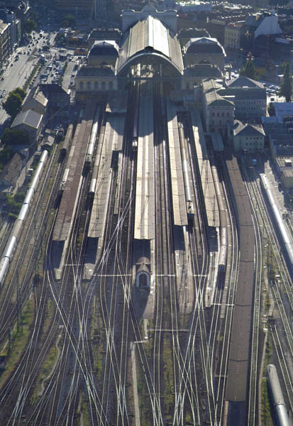 Keleti Station, Budapest, Hungary, aerial photography